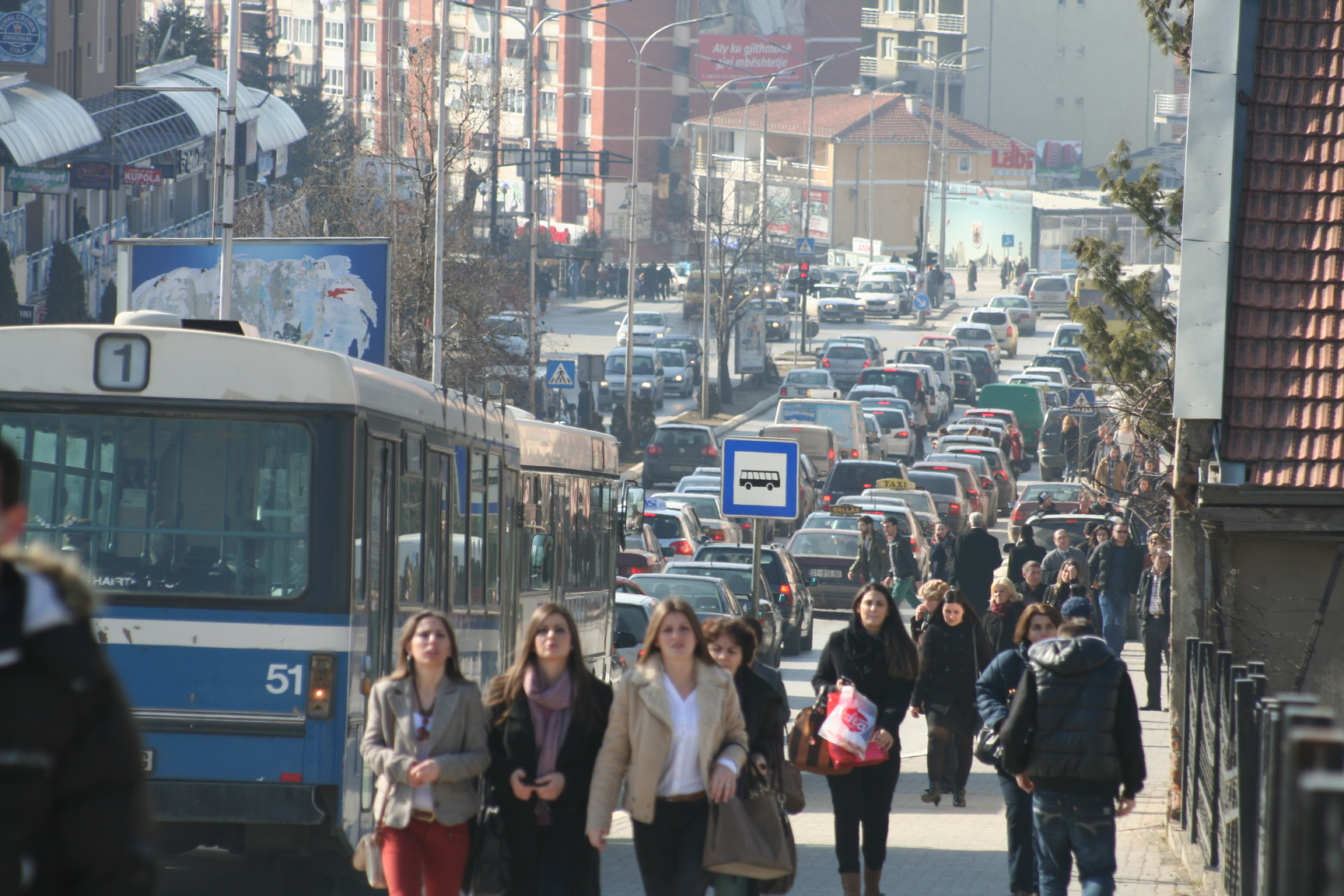 The Traffic Jam in the afternoon in Prishtina